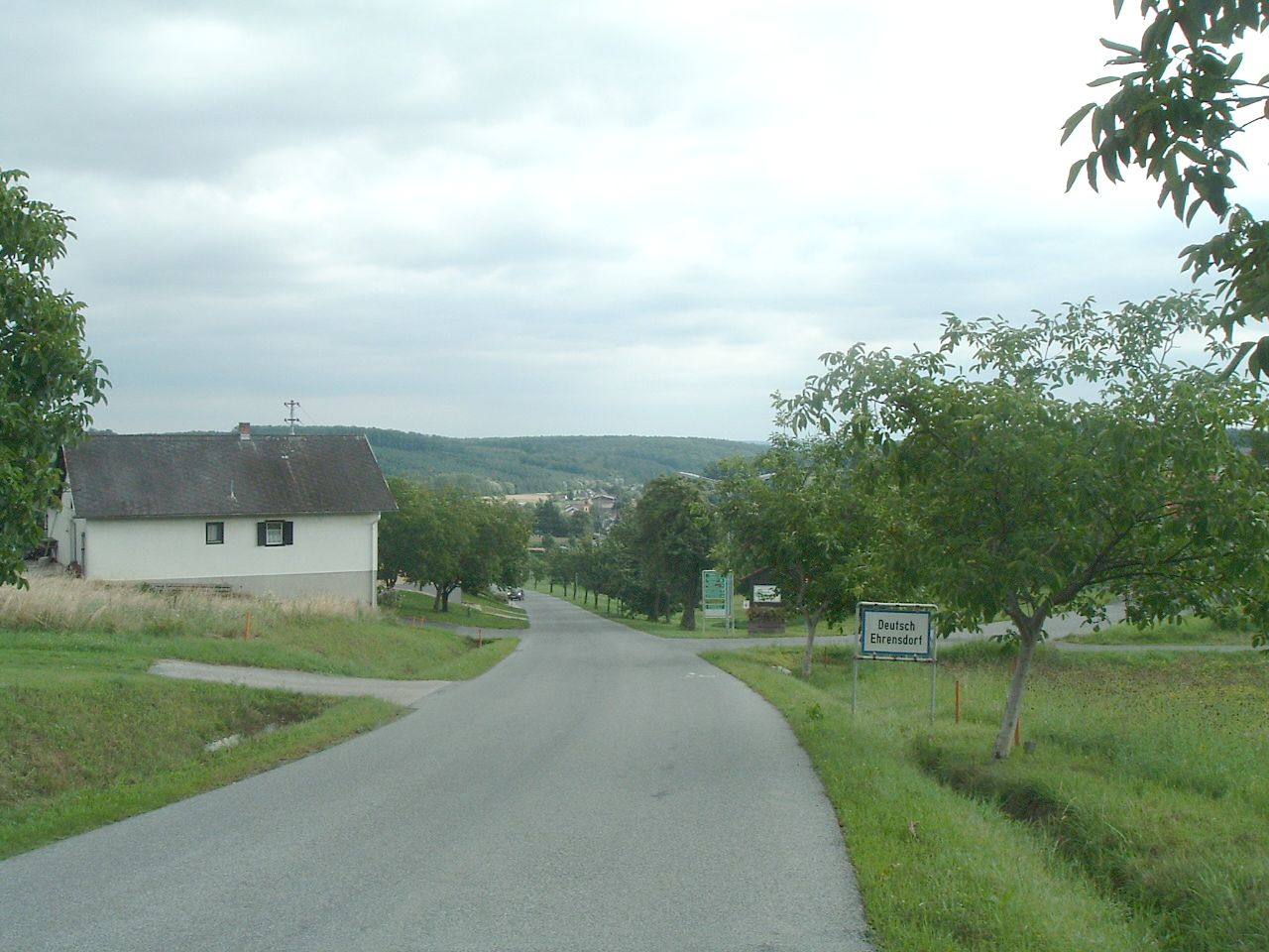 Deutsch Ehrensdorf (Némethásos), Burgenland